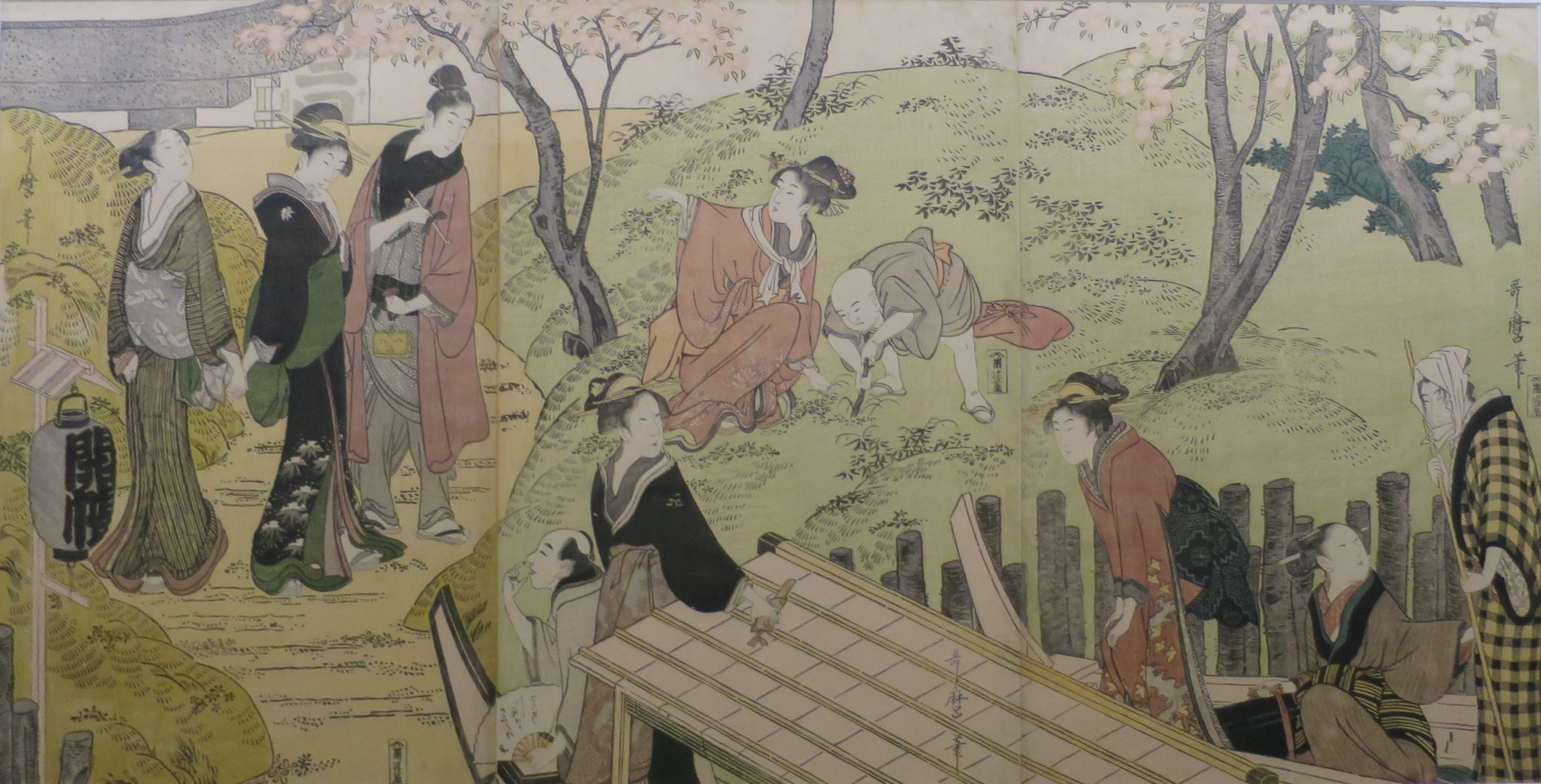 Cherry Blossom Viewing at Mimeguri by Kitagawa Utamaro, 1799, woodblock, Tokyo National Museum